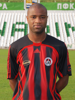 David Mendes Silva. Currenly plays for CSKA (Sofia). Former player of Academica and Lokomotiv (Mezdra)